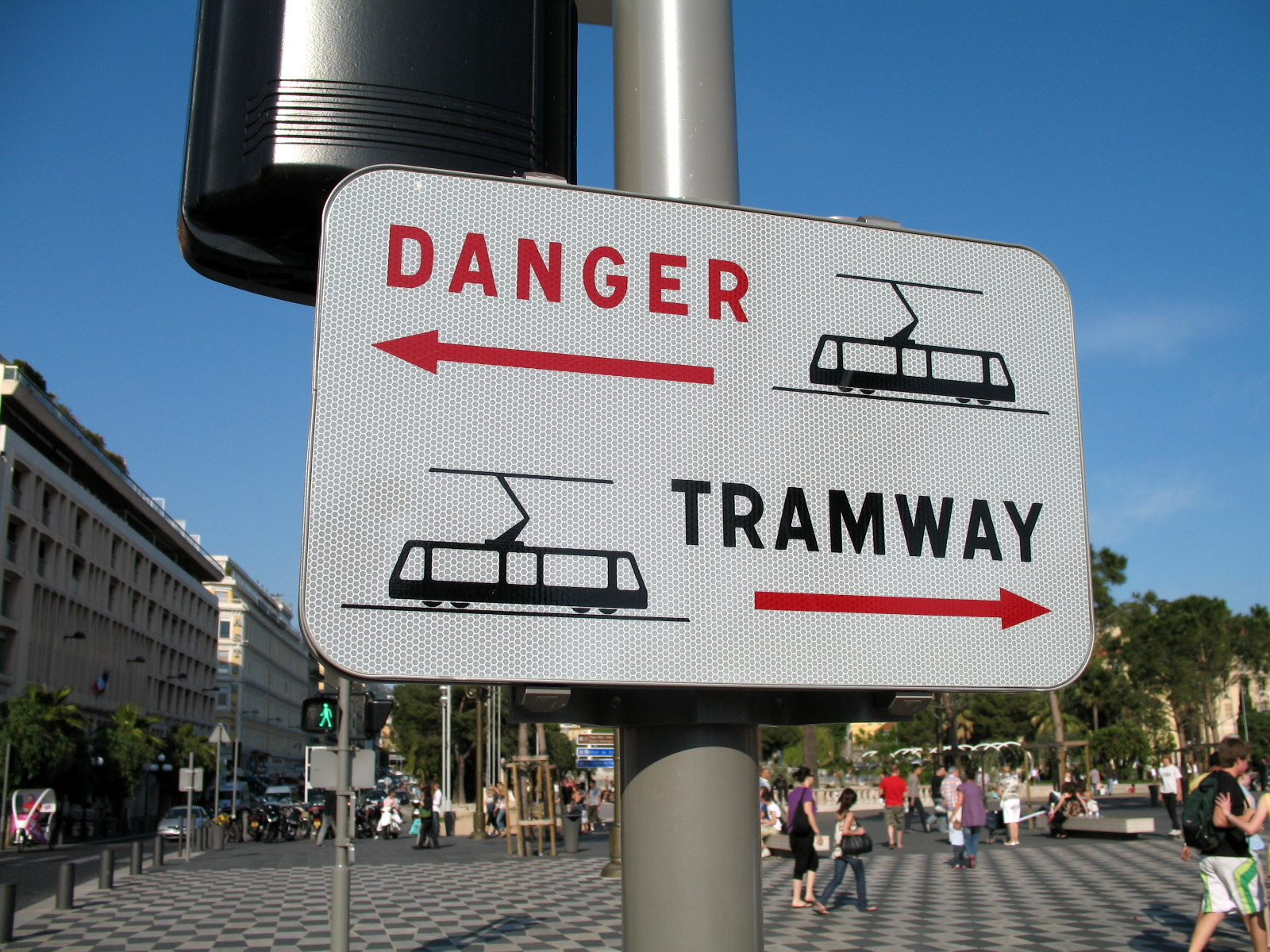 Warning sign crossing tram, Nice